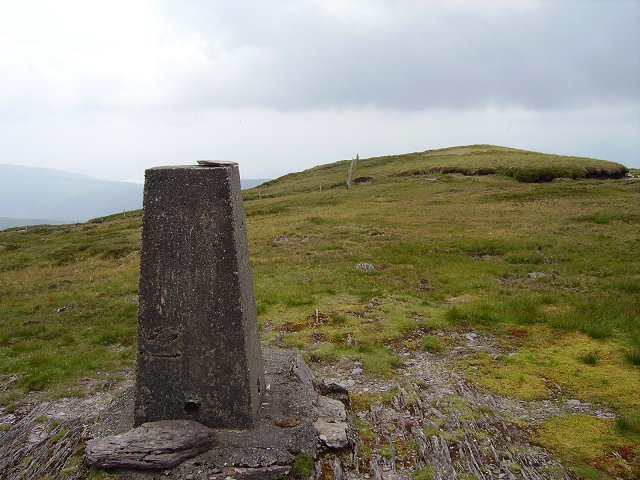 An Cnoc Bui / Knockboy. At 706m this is the highest point of Co. Cork. The hill gets a bad press, but it is a wonderfully wild place. I suppose it is because it is much softer than the land out on the peninsulas. It may be the Rebel County's highest point, but they have to share it with Co. Kerry.